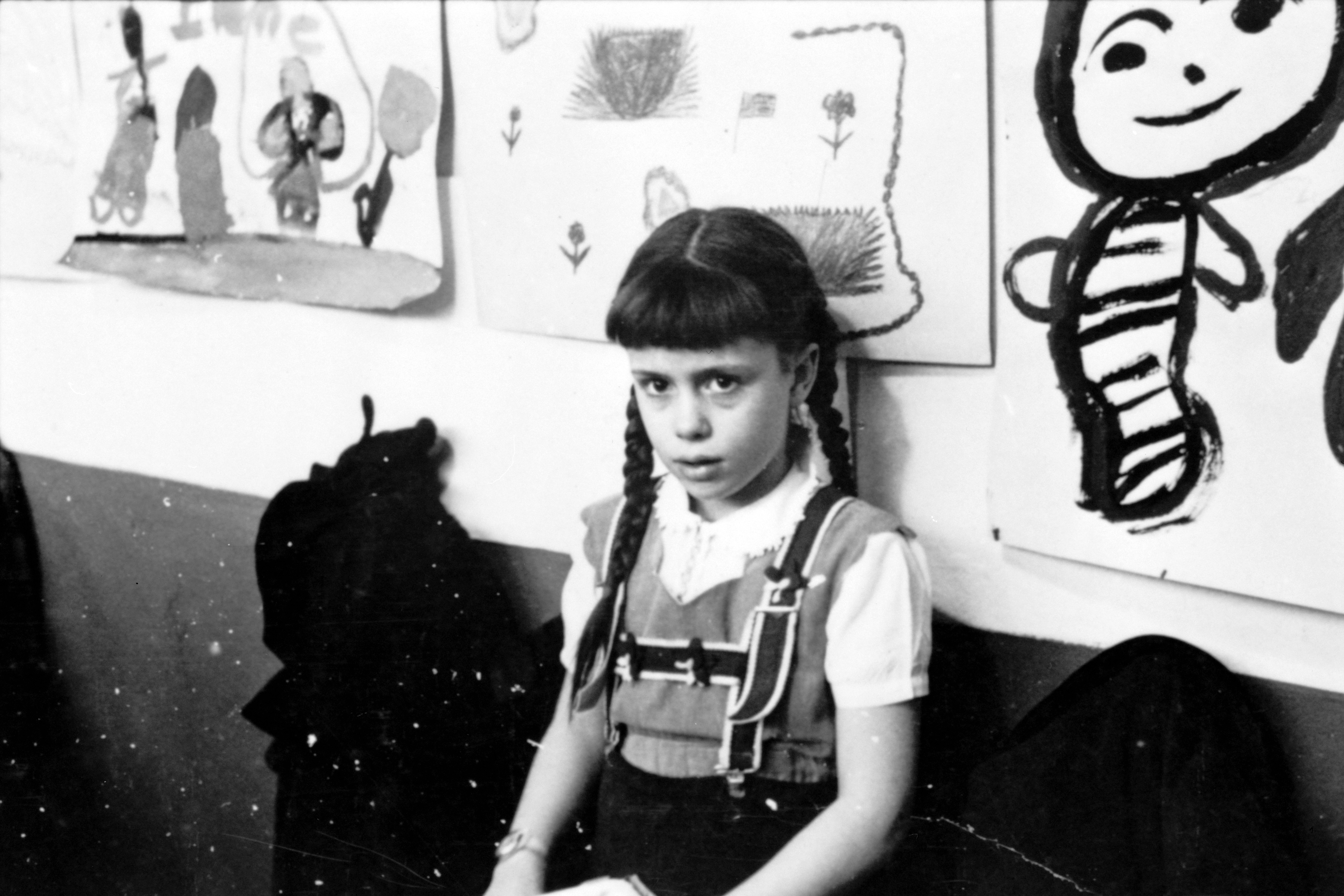 Young girl, half-length portrait, standing against wall displaying art work, in classroom in Chicago, Illinois.